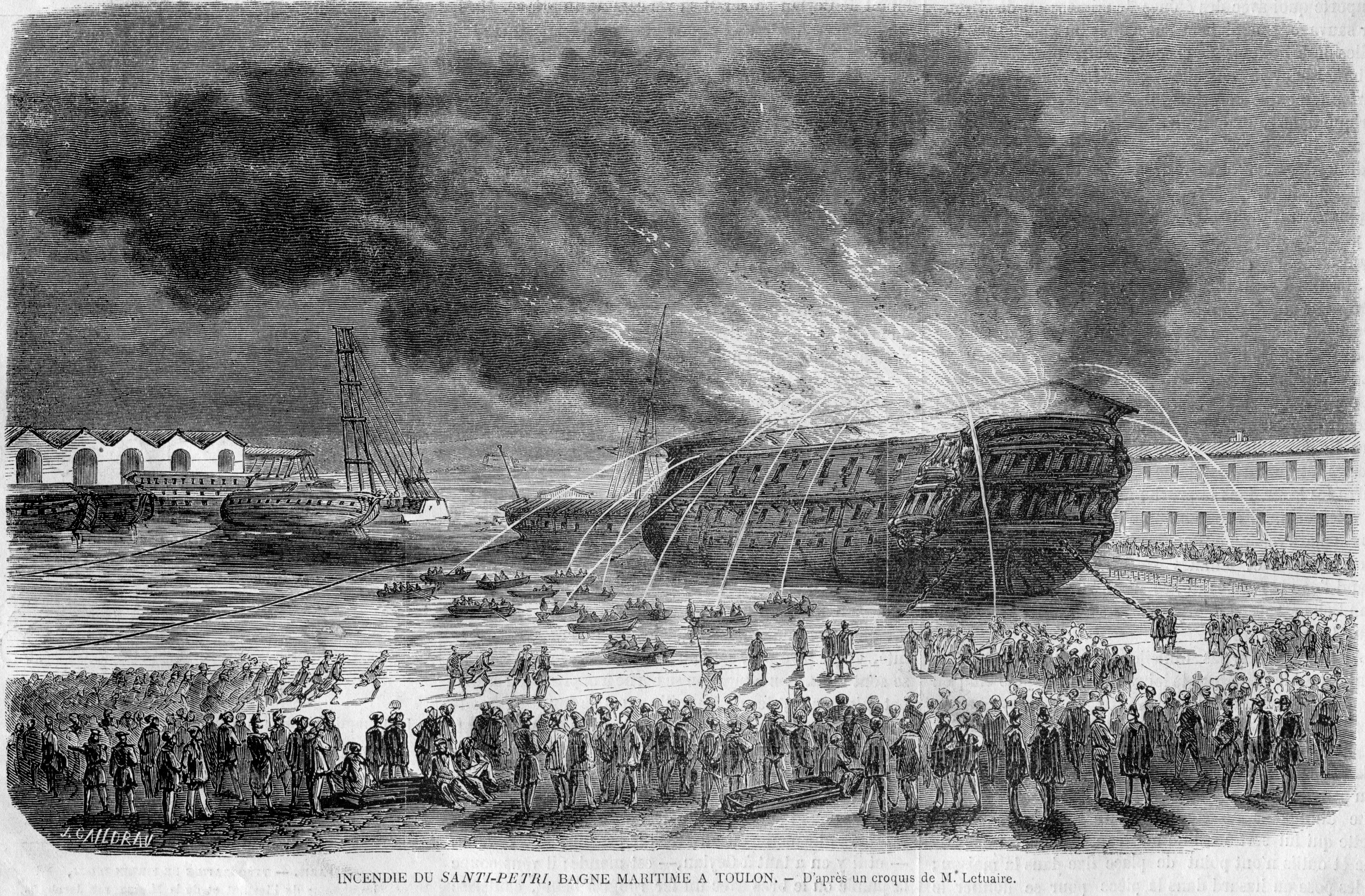 L'Illustration 1862 gravure Incendie du Santi-Petri, Bagne maritime de Toulon, la nuit du 5-6 janvier 1862